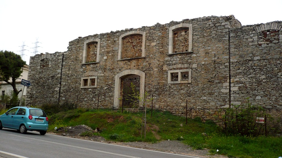 The above picture depicts the Tourelle tower at Penteli.